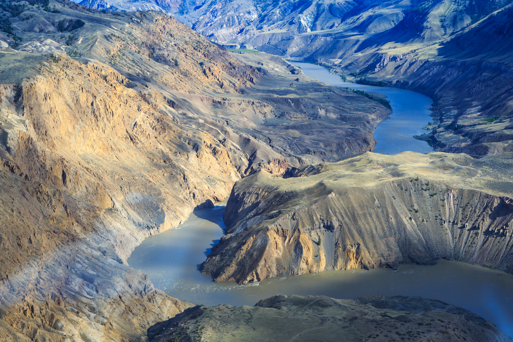 Fraser River scenes near Big Bar